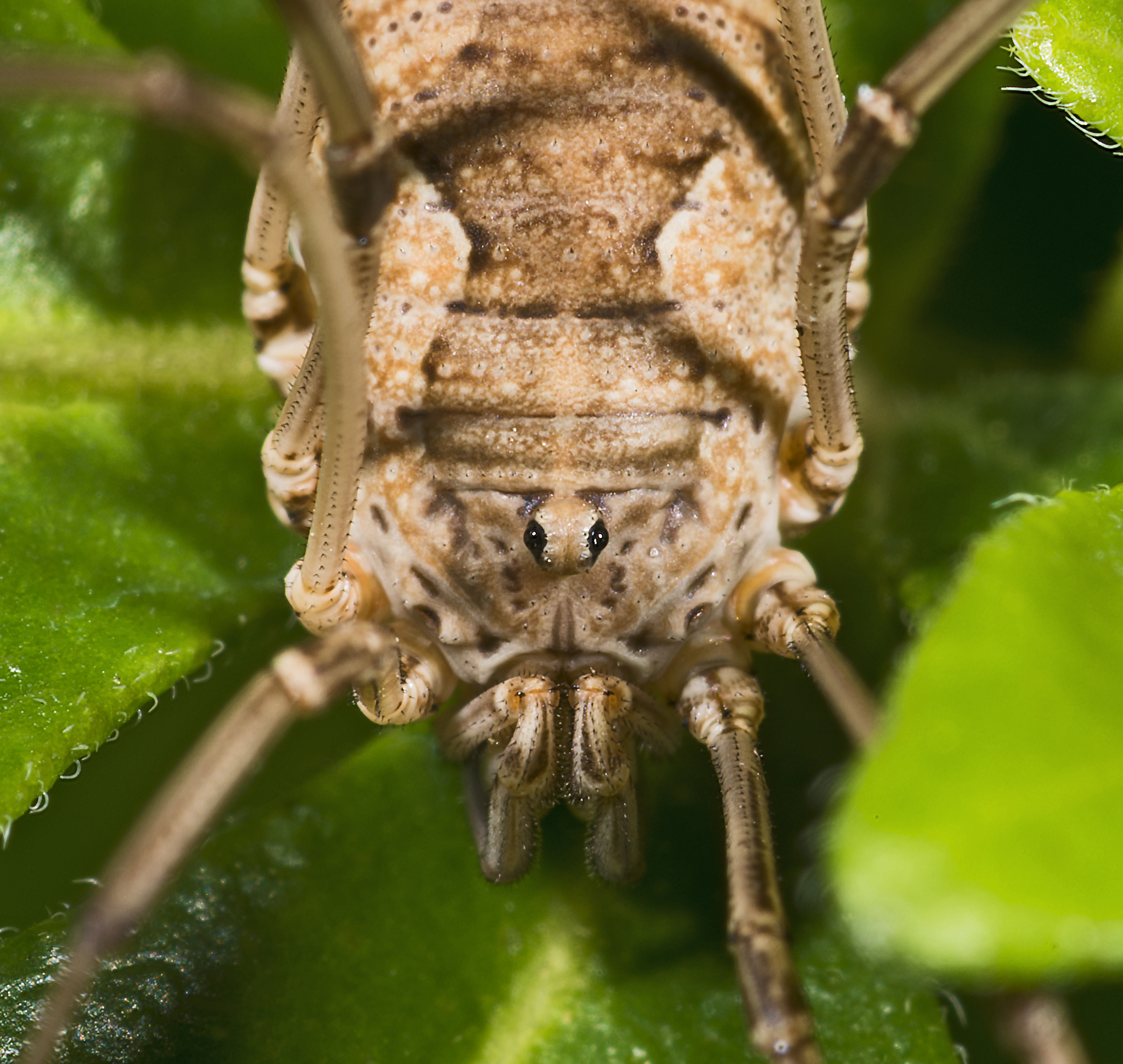 Phalangium opilio, portrait.